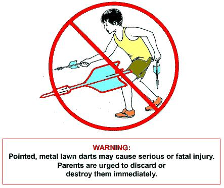 Lawn Dart Warning notice.